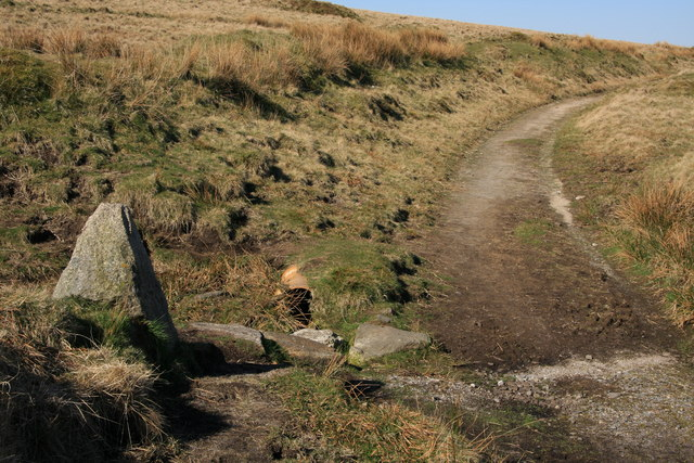 Two Moors Way The point at which the path leaves, or joins, the Redlake Tramway track. The stone on the left is the Two Moors marker. The earthenware pipe is part of the return pipeline that took waste water from the Greenhill Micas back to the clay pit. See pictures in SX6465 and SX6565.